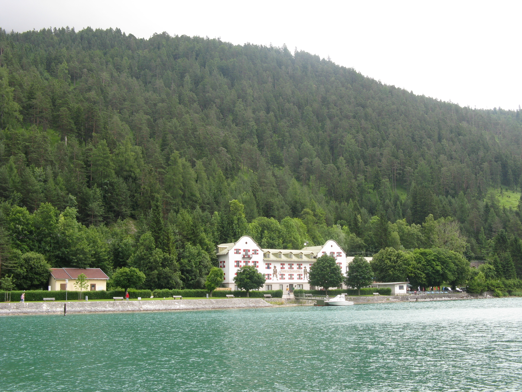 Scholastika Hotel, Achensee/Tyrol, Austria